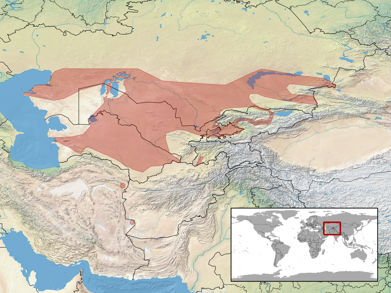 geographic distribution of Mediodactylus russowii syn. Cyrtopodion russowii (Native: China; Iran, Islamic Republic of; Kazakhstan; Kyrgyzstan; Tajikistan; Turkmenistan; Uzbekistan / Regionally extinct: Russian Federation)